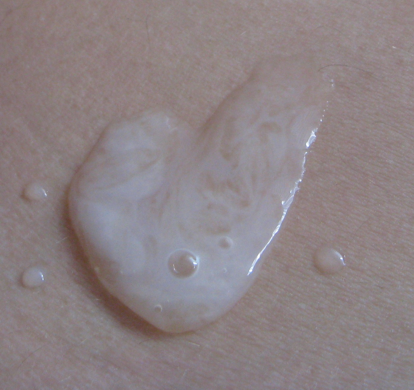 Human semen